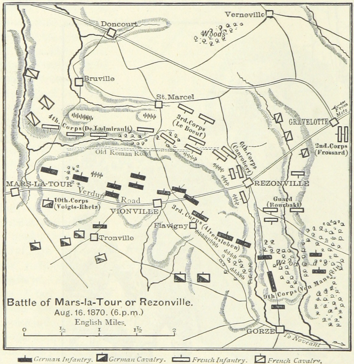 A map of the Battle of Mars-la-Tour.